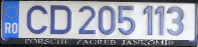 Romanian diplomatic numberplate